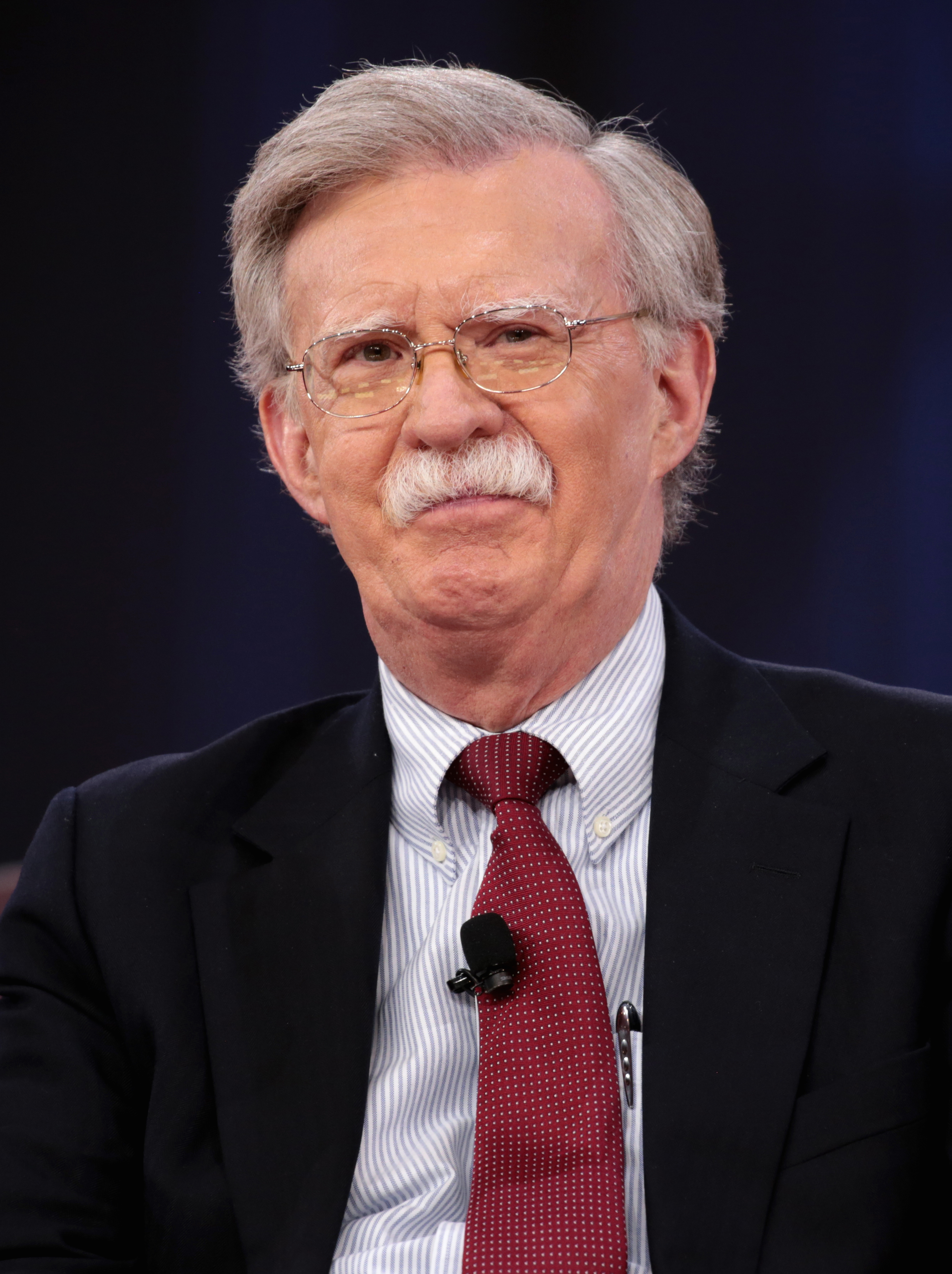 John R. Bolton speaking at the 2018 CPAC in National Harbor, Maryland.